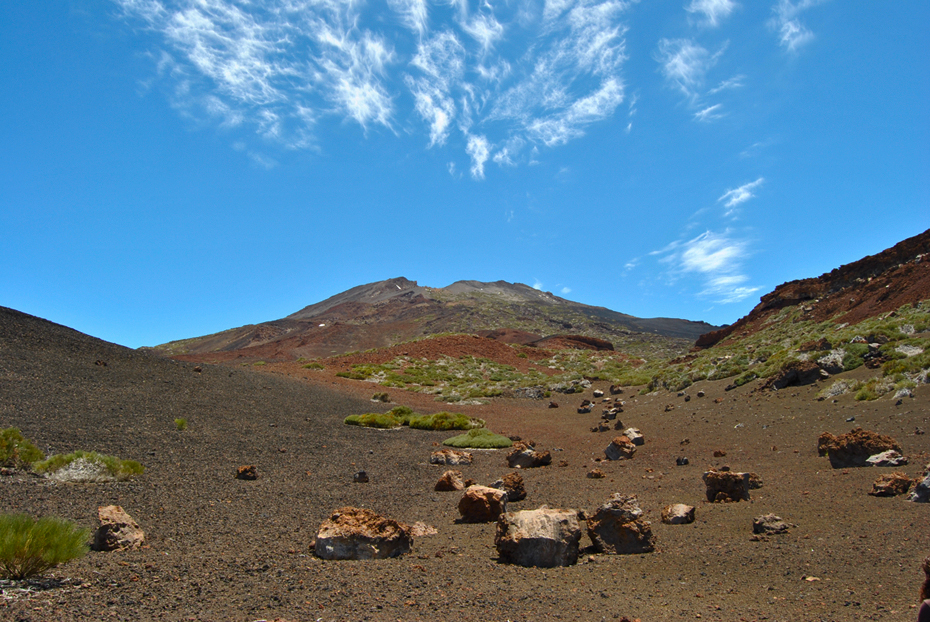 Pico Viejo o Montaña Chahorra